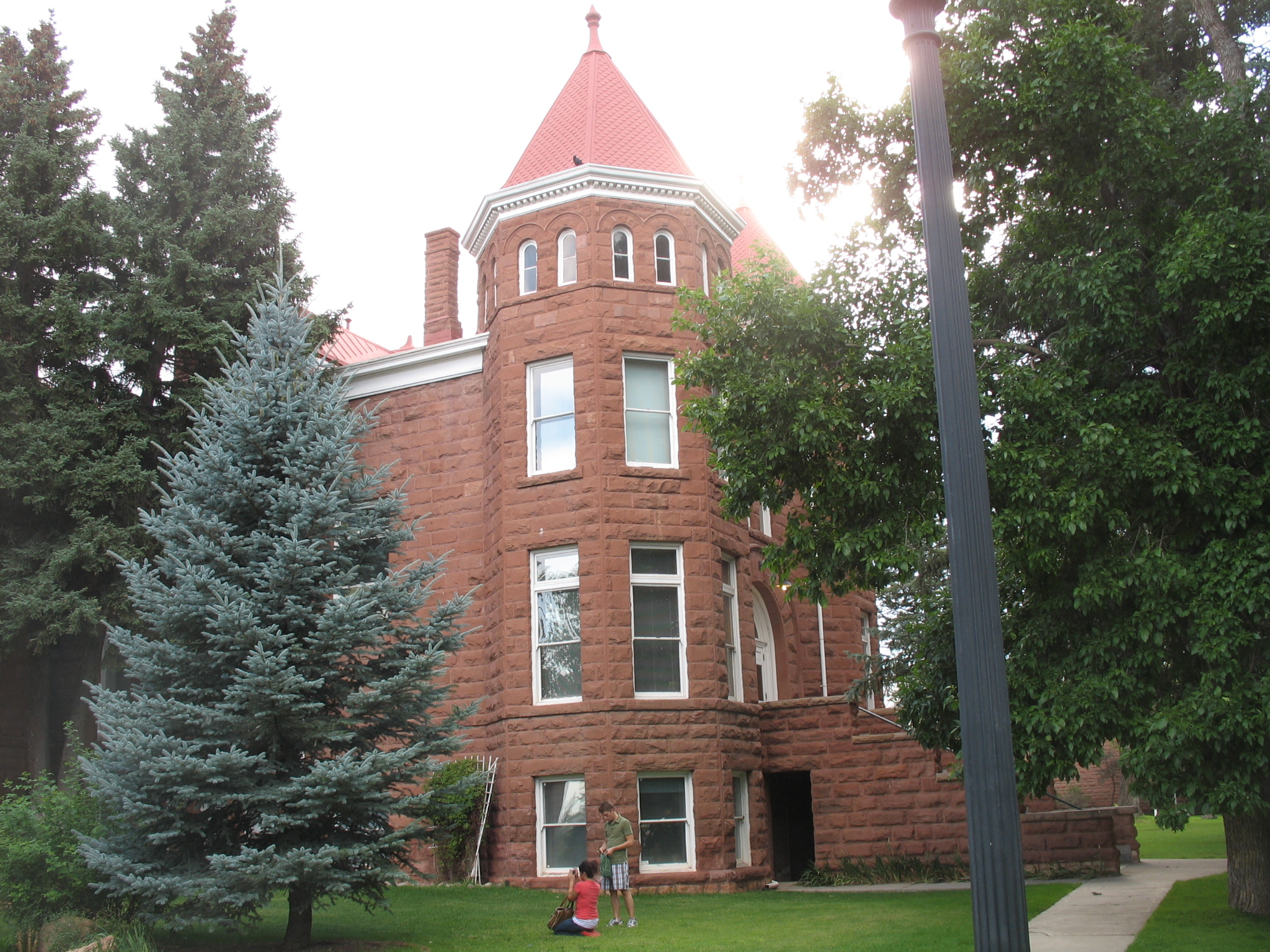 Northern Arizona University's Old Main Building. Photo by Thesocialistesq.